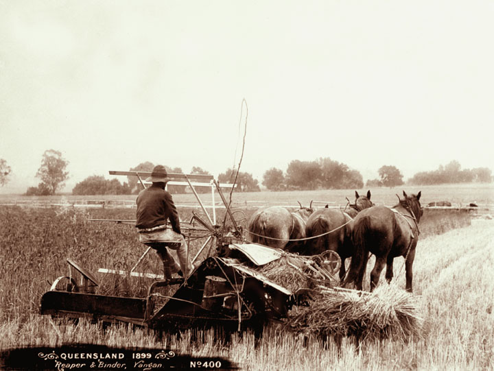 Reaper and binder at Yangan.